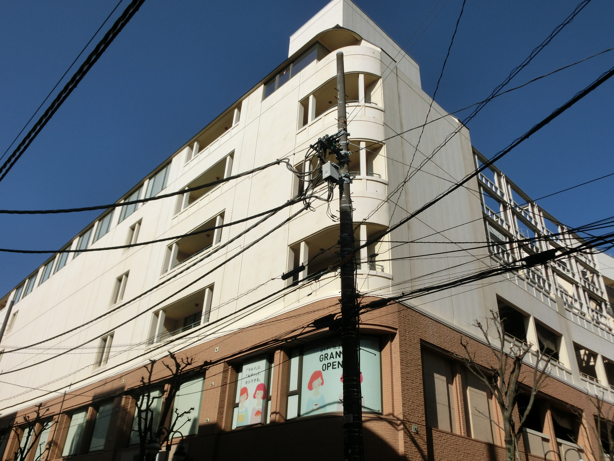 Kashiwa Modi